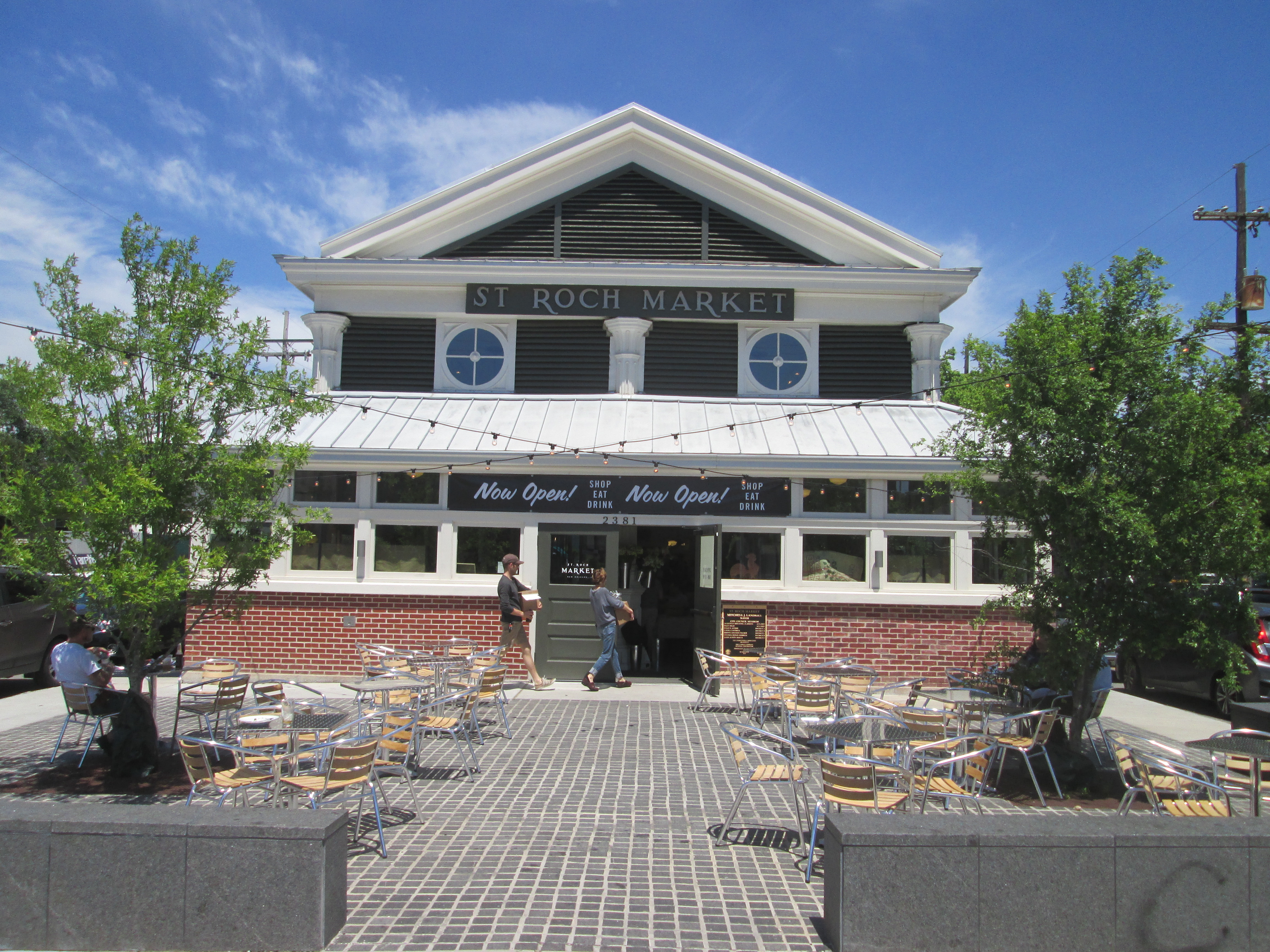 St. Roch Market, New Orleans. Refurbished and reopened jus over a week earlier, for the first time since Hurricane Katrina and the attendant flood almost 10 years earlier. Exterior front facing St. Claude Avenue.